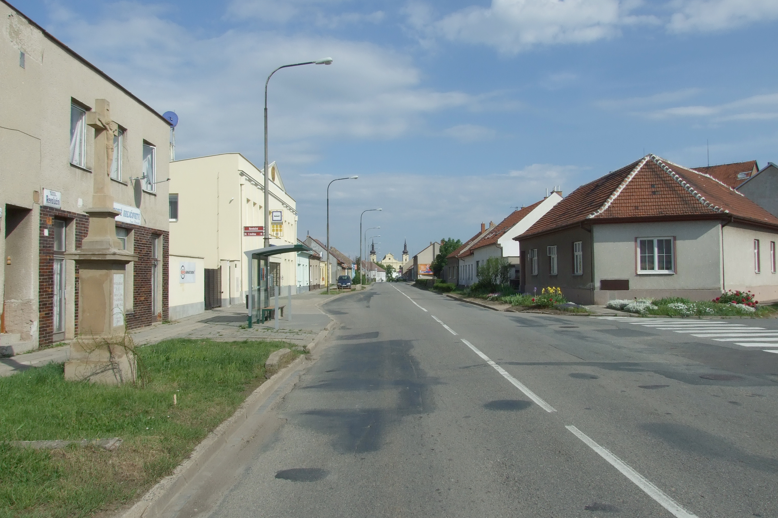 Tuřany - Revoluční street from west